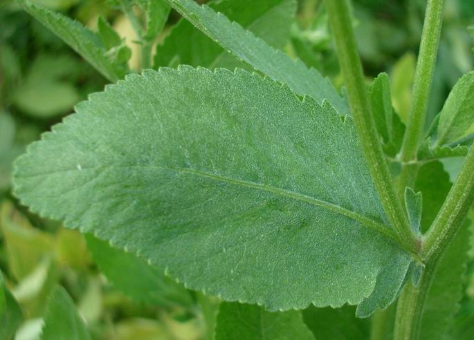 Tanacetum balsamita cv.majus Folia. 2008. Cultivar: canonic Yuri Khanon